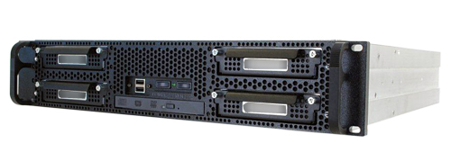 Core Systems 2U Rugged Computer